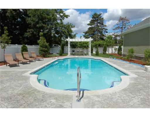 New Construction, Clam Point